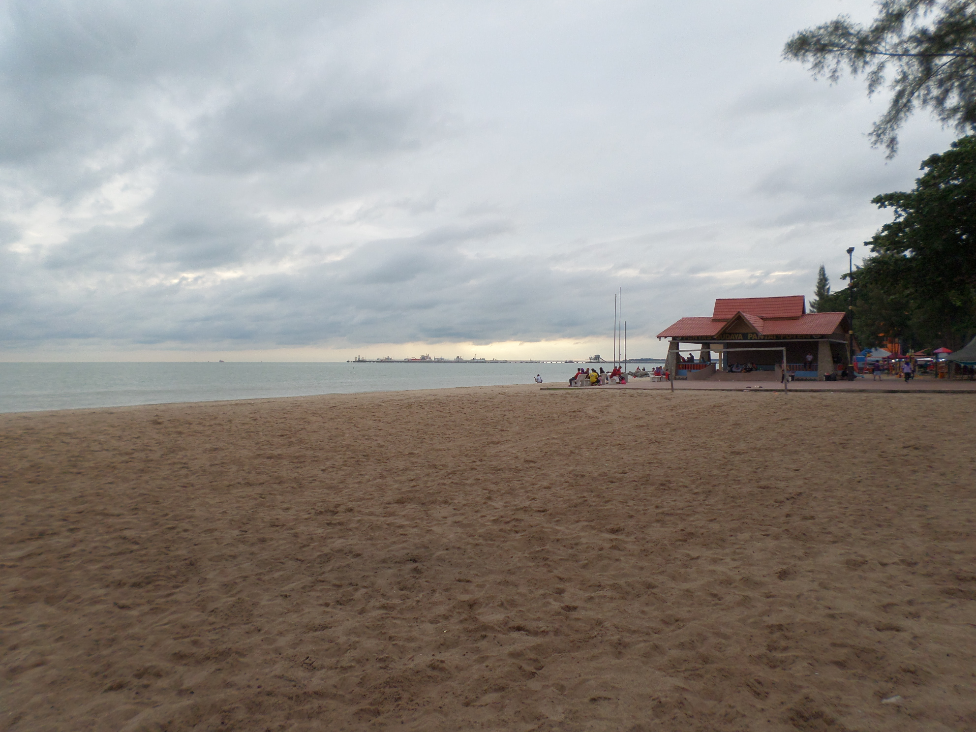 Puteri Beach, Tanjung Kling, Malacca, MalaysiaBahasa Melayu: Pantai Puteri, Tanjung Kling, Melaka, Malaysia